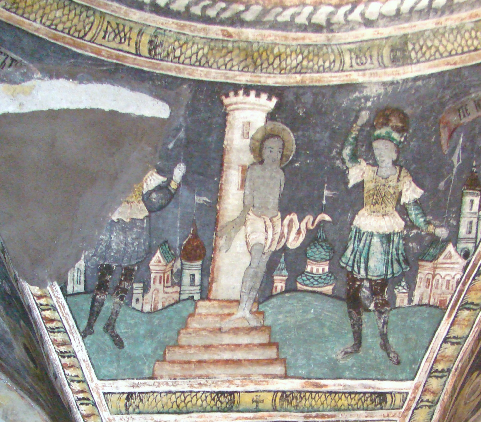 The church of the Descent of the Holy Spirit in Micești, Cluj county, Romania